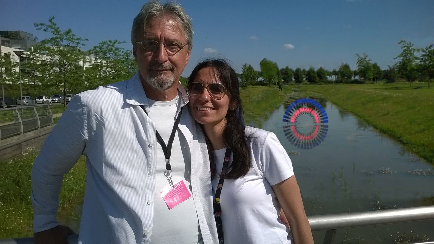 Sasha and Tatiana, ENTRE-LAC, Nature Art Symposium 2014, Lille, France